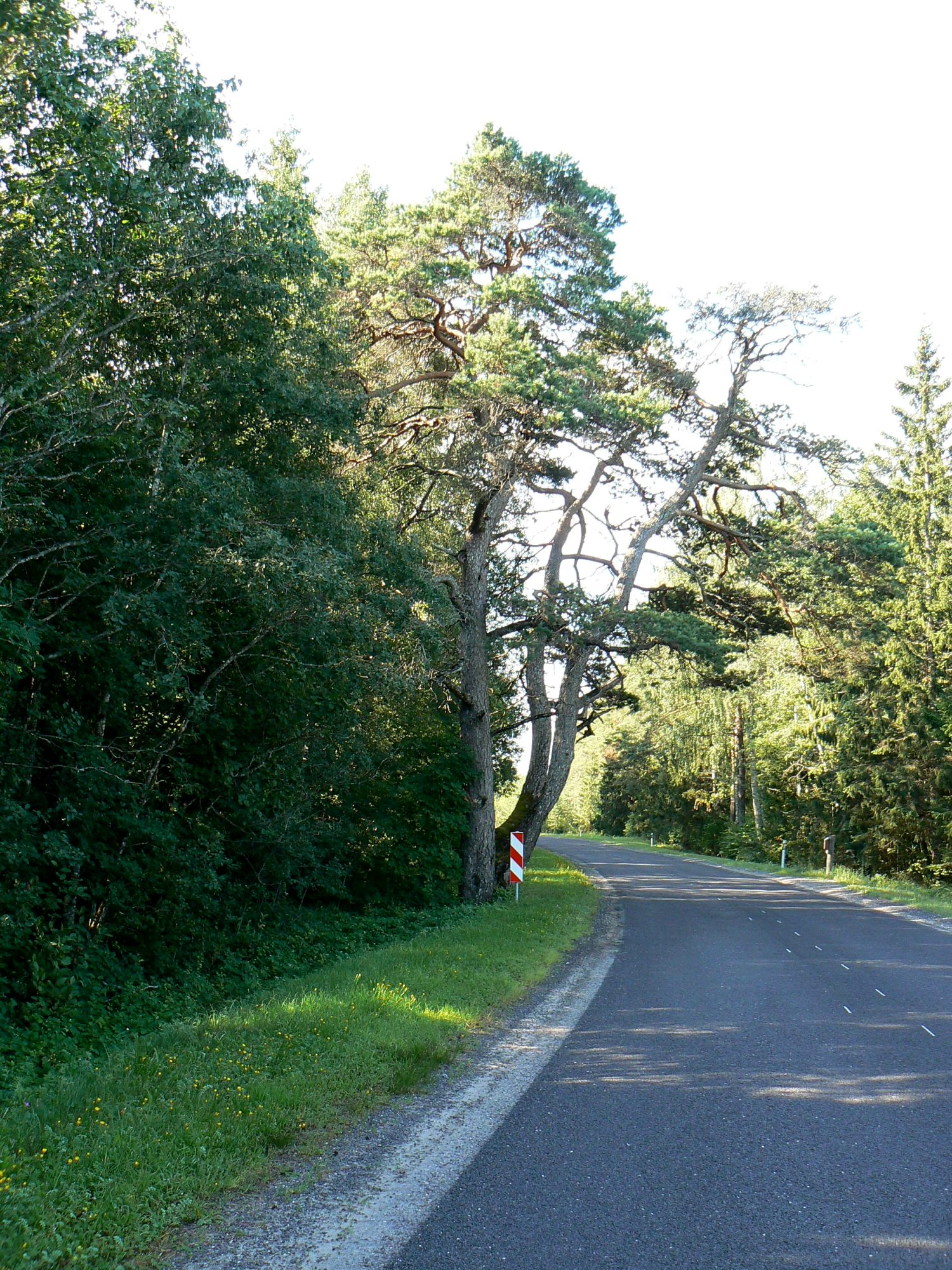 The Sohlu pine in Estonia